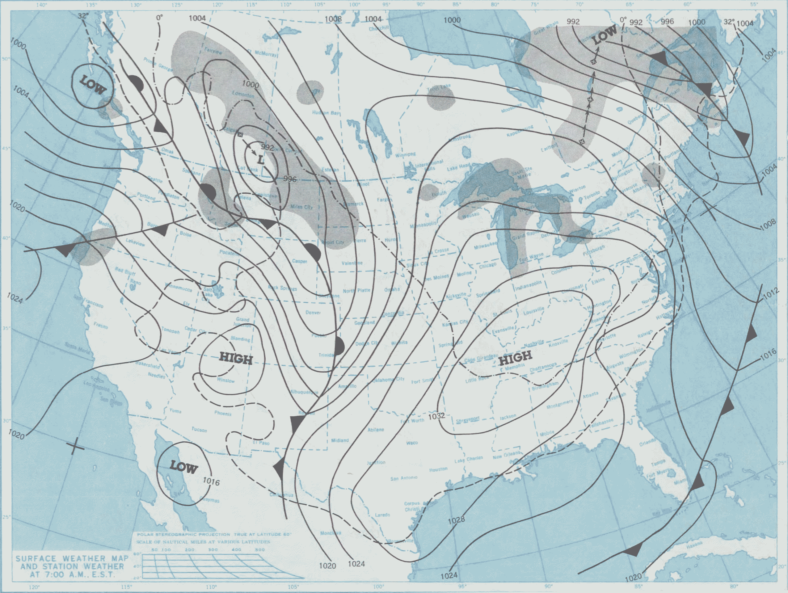 Surface weather analysis of the United States on 17 January 1982, Cold Sunday.